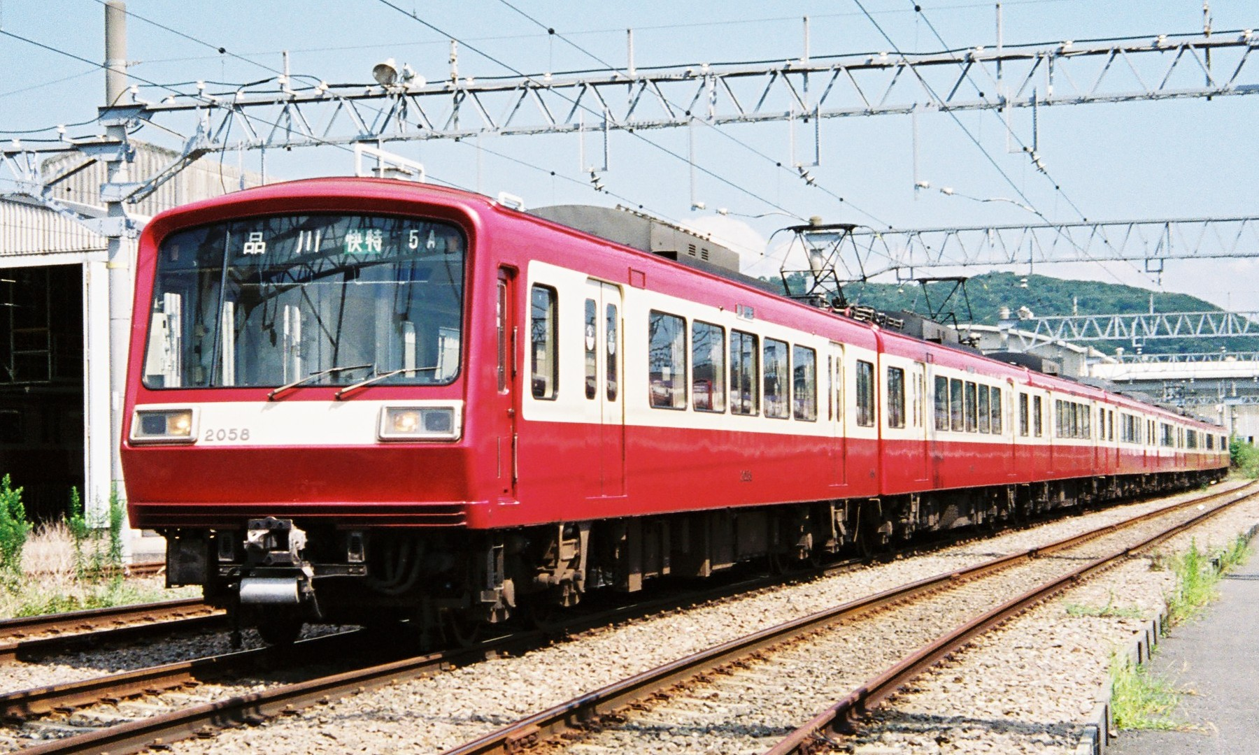 A Keikyu 2000 series EMU in original 2-door style